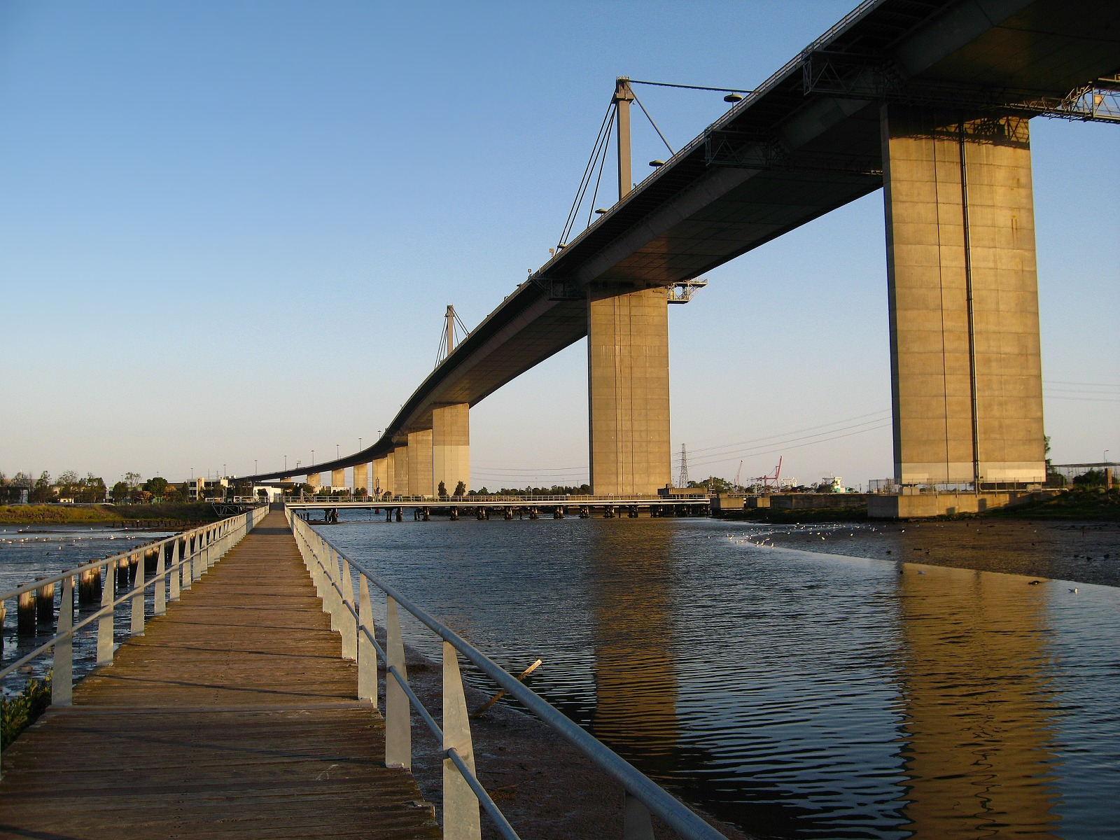 The West Gate Bridge as seen from the walkway near the West Gate Bridge Memorial Park in Melbourne, Victoria, Australia.